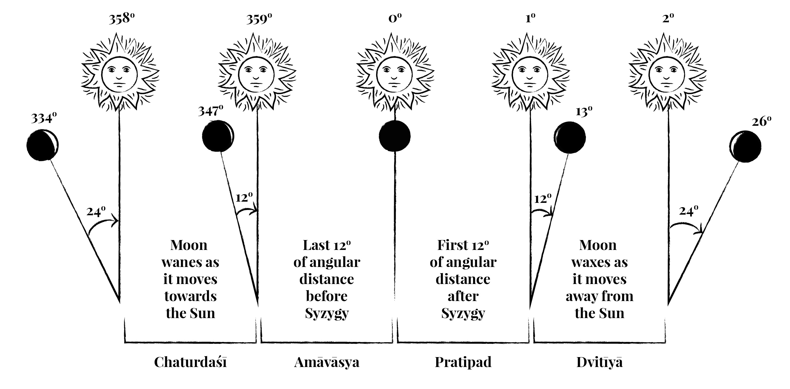 Differentiation of the 12 degree movement within Amavasya, syzygy and Prathama from the Moon's 30 lunar phases used in Asia.